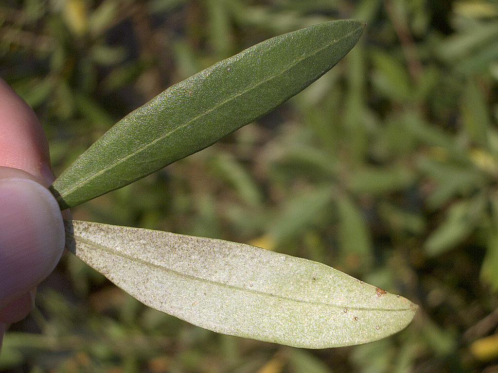 Olive tree leaves, front and back sides, Bela Vista, Lisboa, Portugal. Upper leaf: Front side. Lower leaf: Back side.